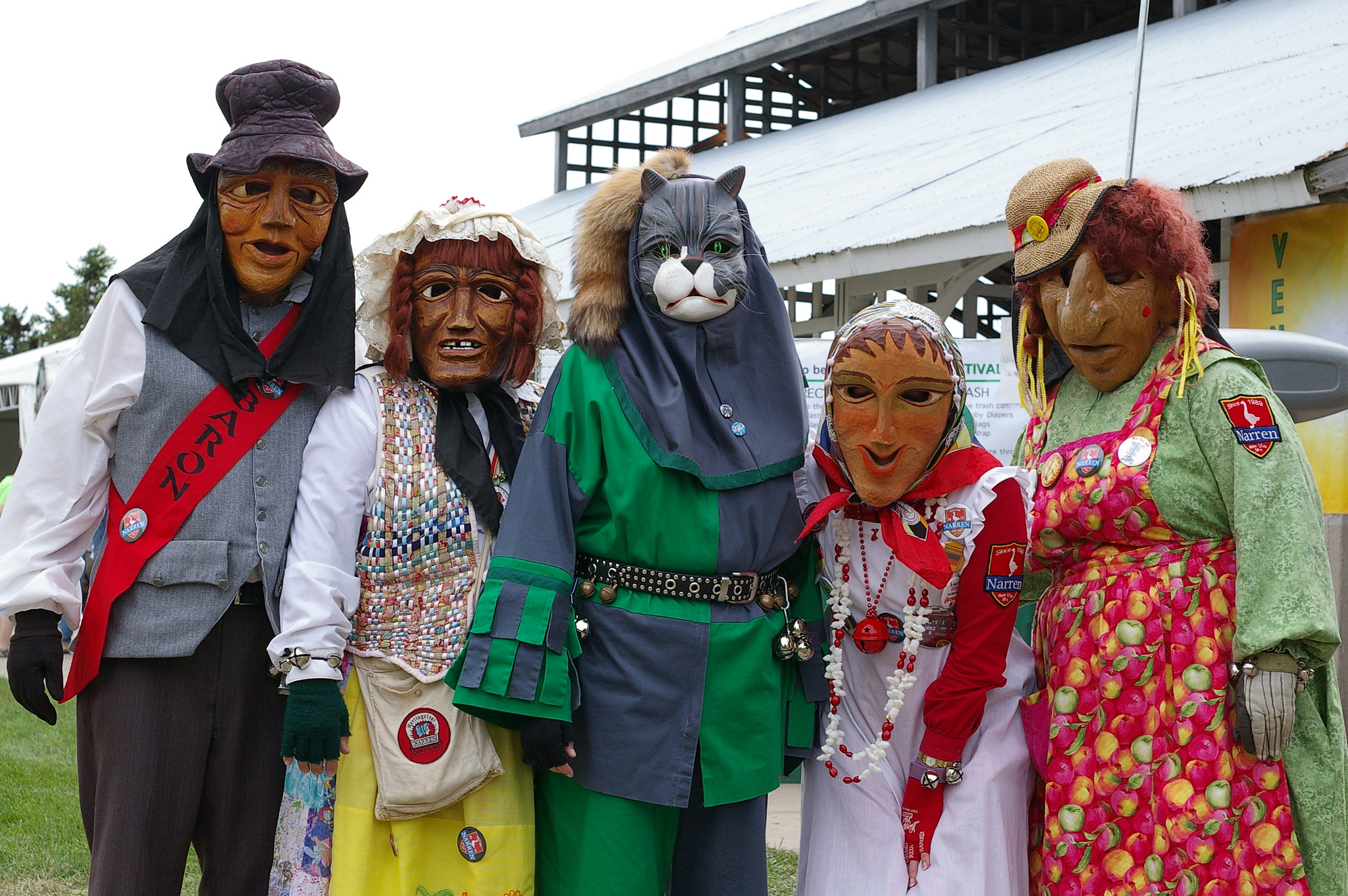 German-style masked carnival "fools" of the "Narren" group New Ulm MN, at the Minnesota Garlic Festival in Hutchinson MN, 11 August 2012